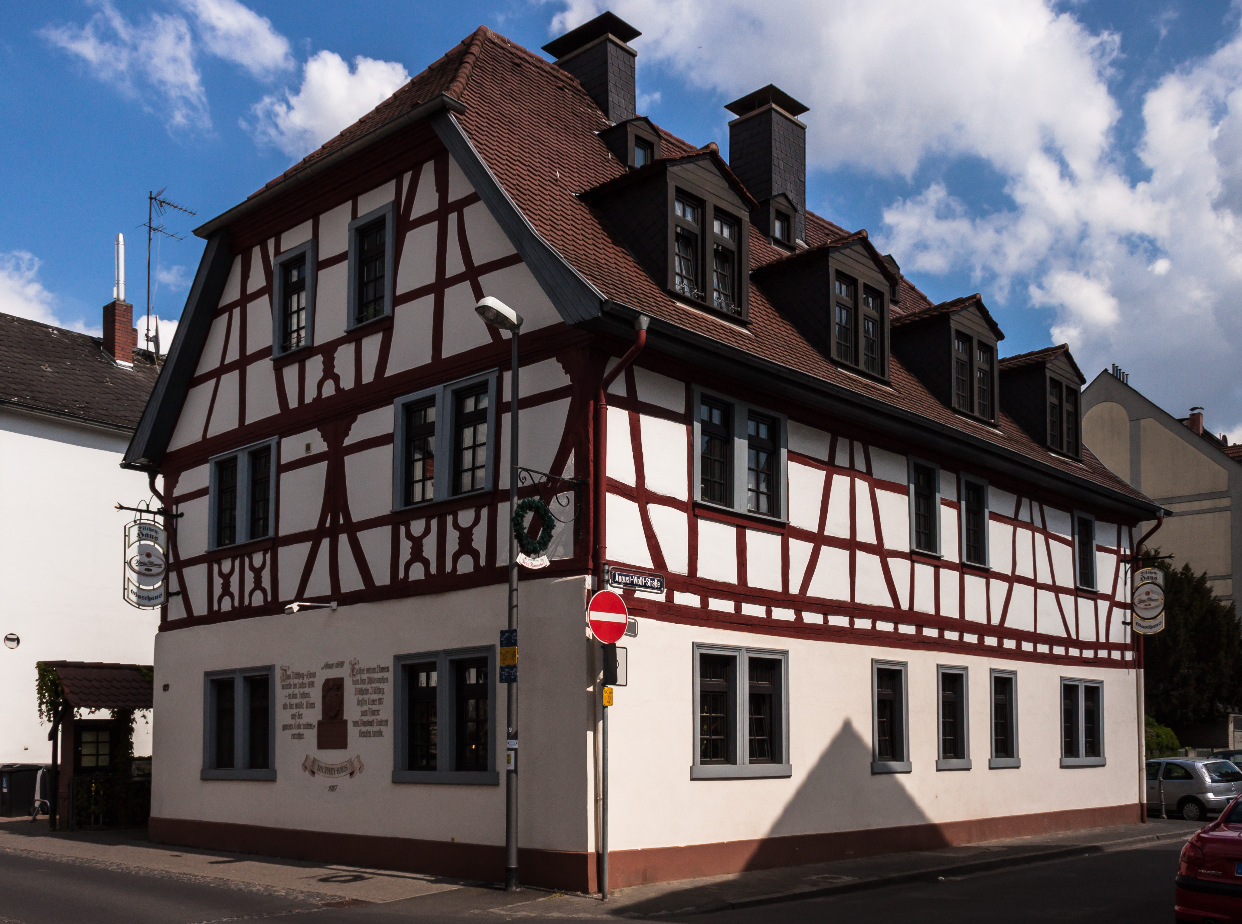 The so called "Dilthey-House" in Wiesbaden-Biebrich. It is namend after the philosopher Wilhelm Dilthey.